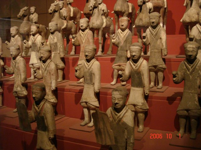 Chinese pottery soldiers from the Western Han Dynasty.